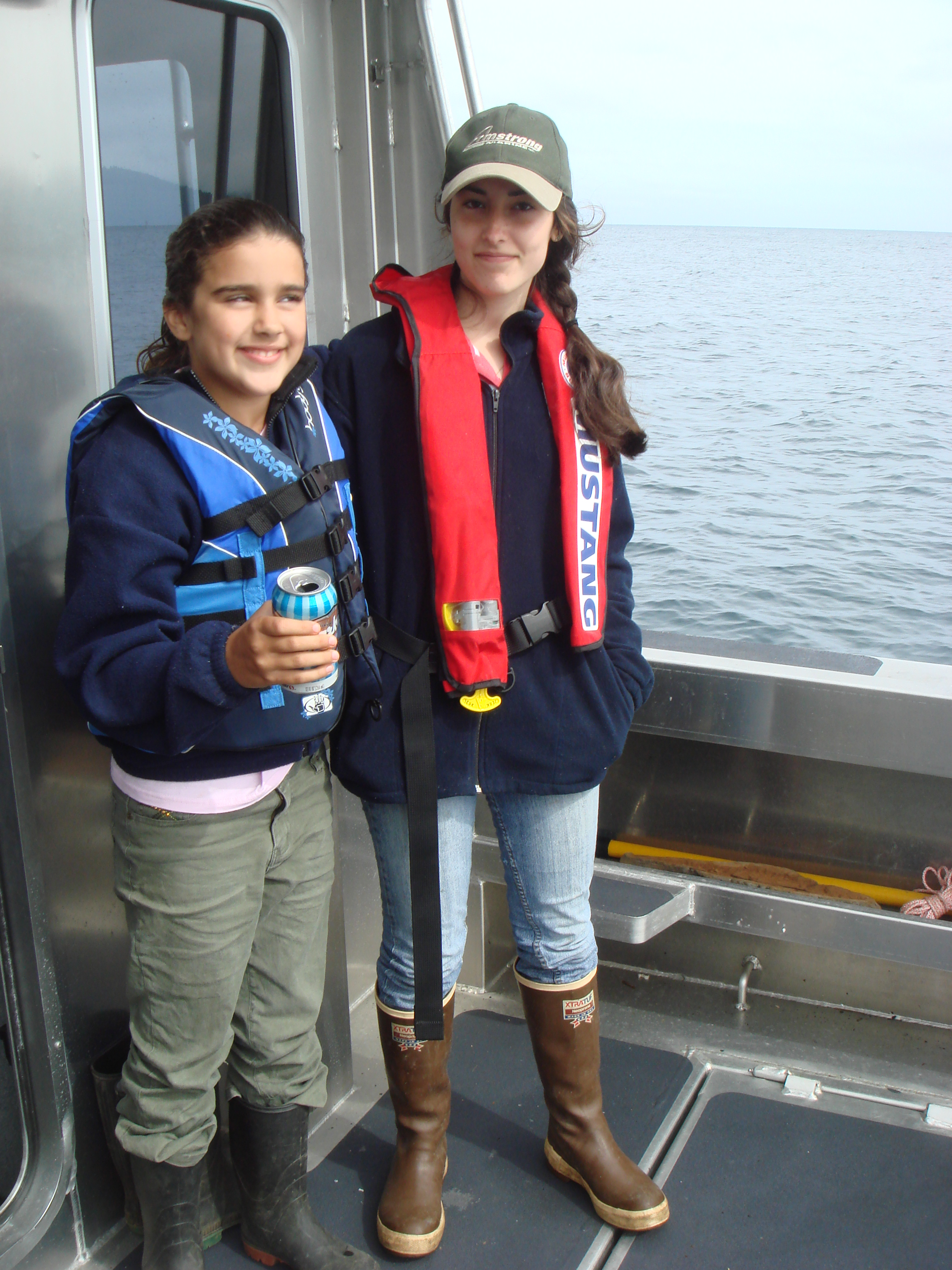 Before the great catch!